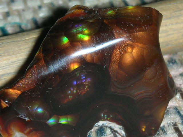 I took this photo myself of my own fire agate